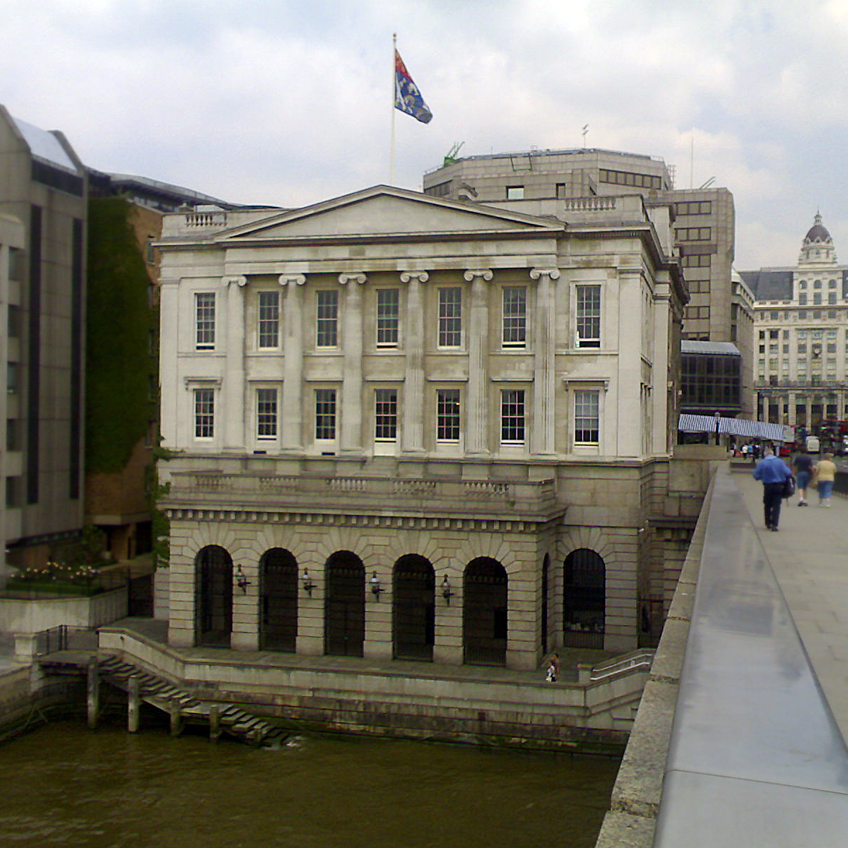 Worshipful Company of Fishmongers, north banks near London Bridge, UK